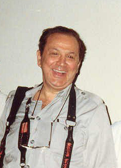 Ron Galella, an American photographer, known as a pioneer paparazzo. Taken at the 1988 Academy Awards